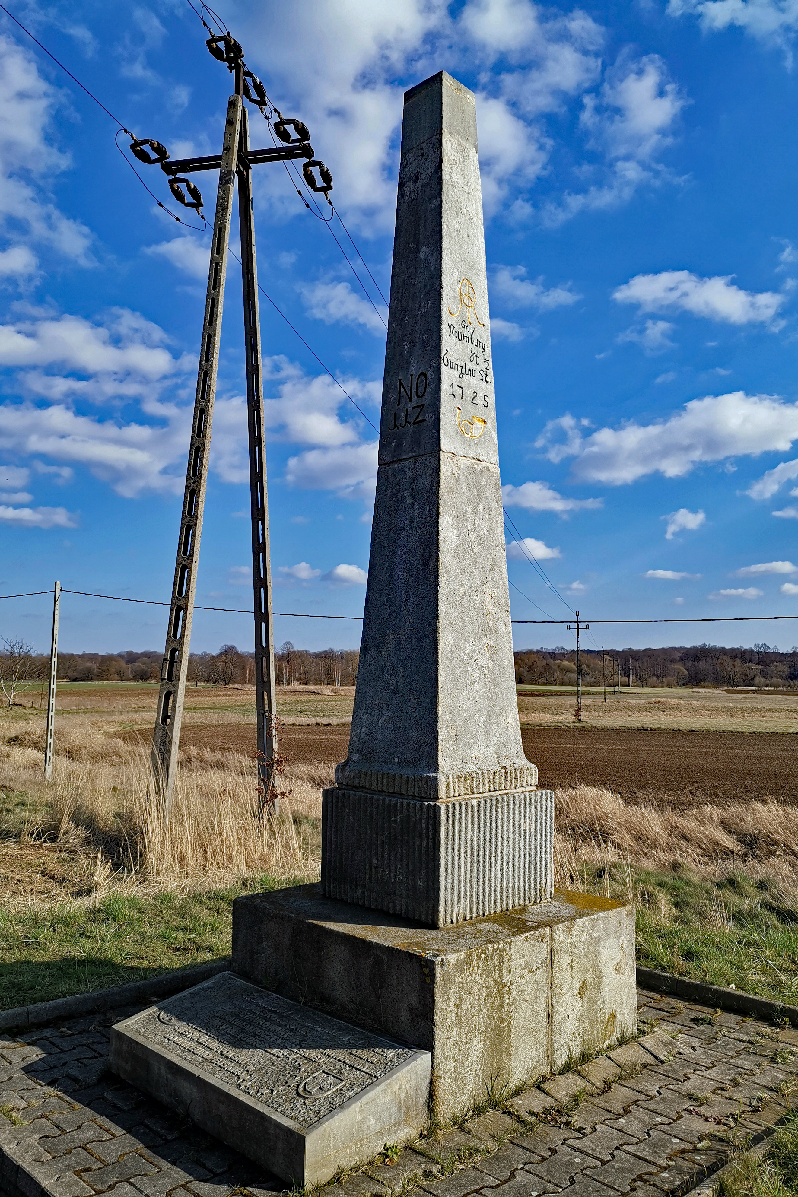 Nowogrodziec (Lower Silesian Voivodeship, Poland) milestone